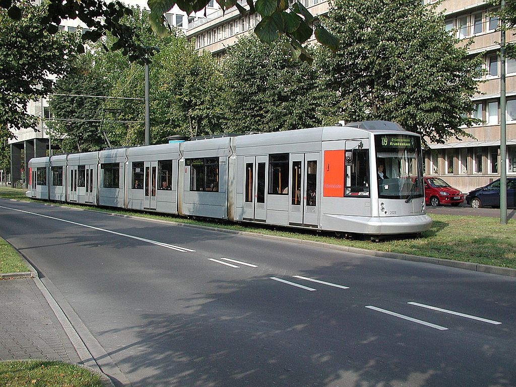 Siemens Combino tram (#2028) in Düsseldorf, Germany.